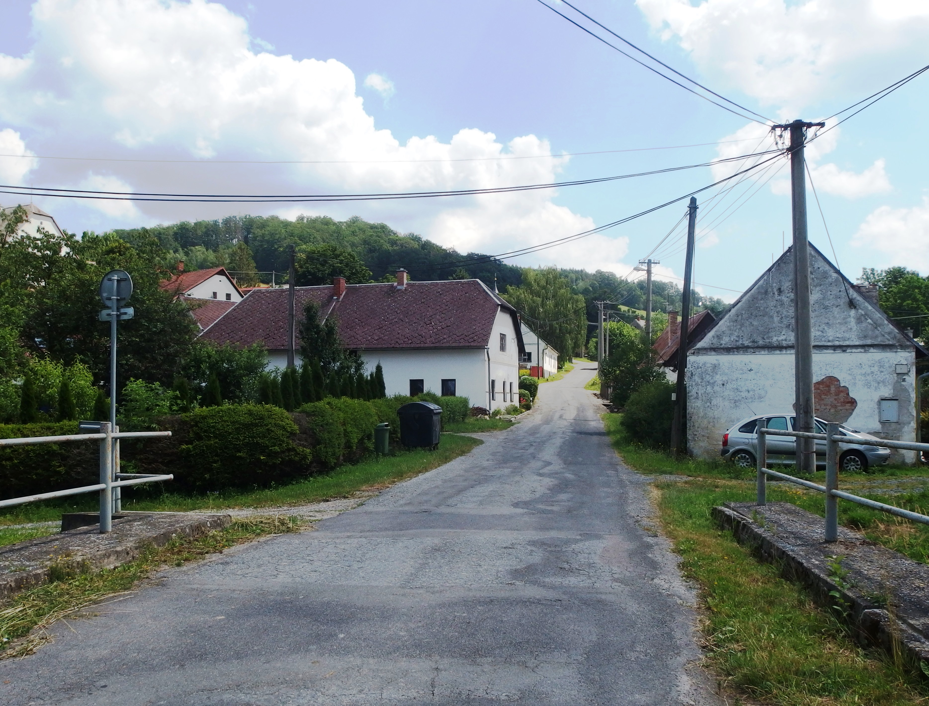 Dlouhomilov, Šumperk District, Czechia, part Benkov.